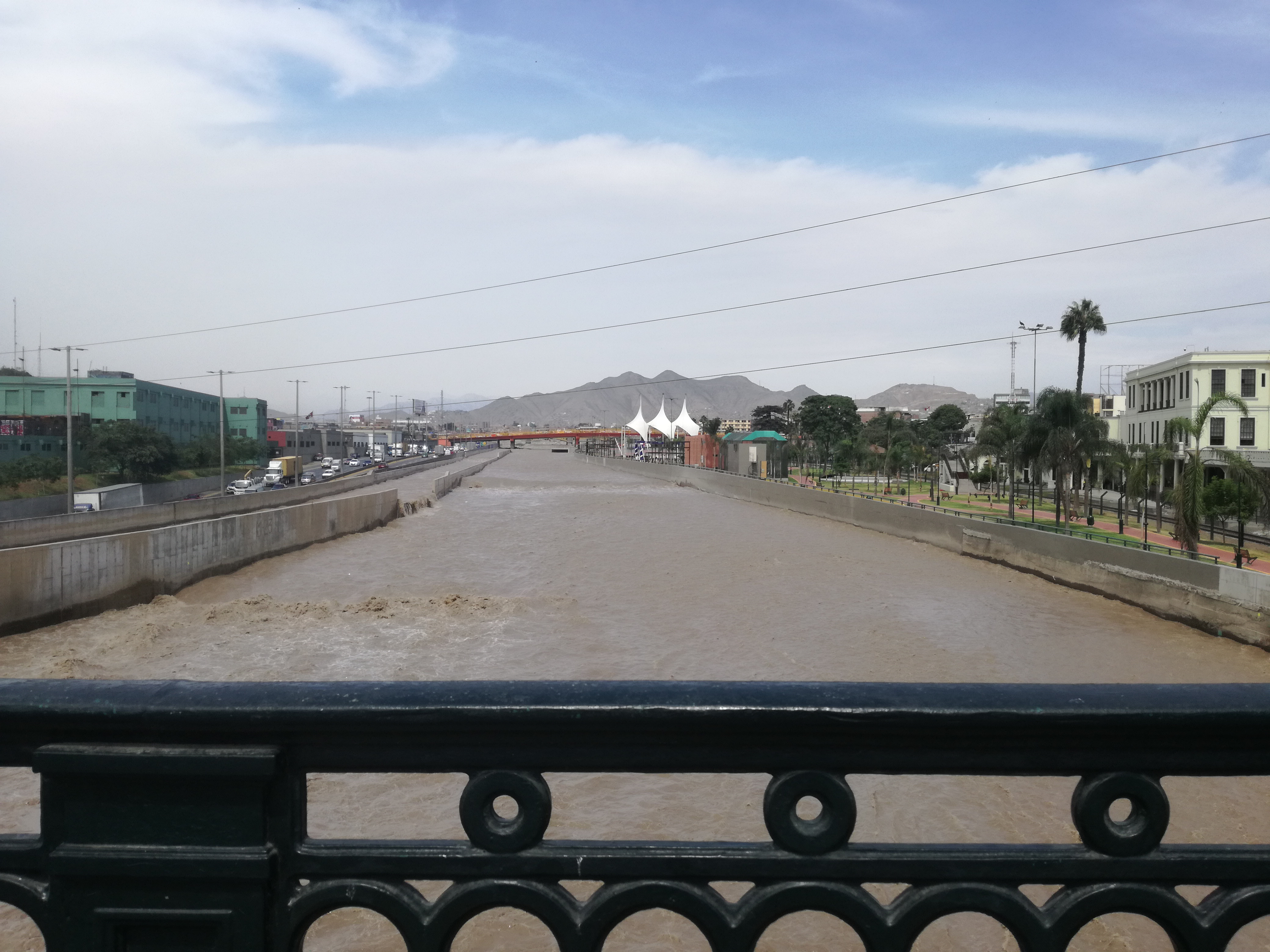 Rimac River, view from Stone Brigde in Lima, Peru. 2017